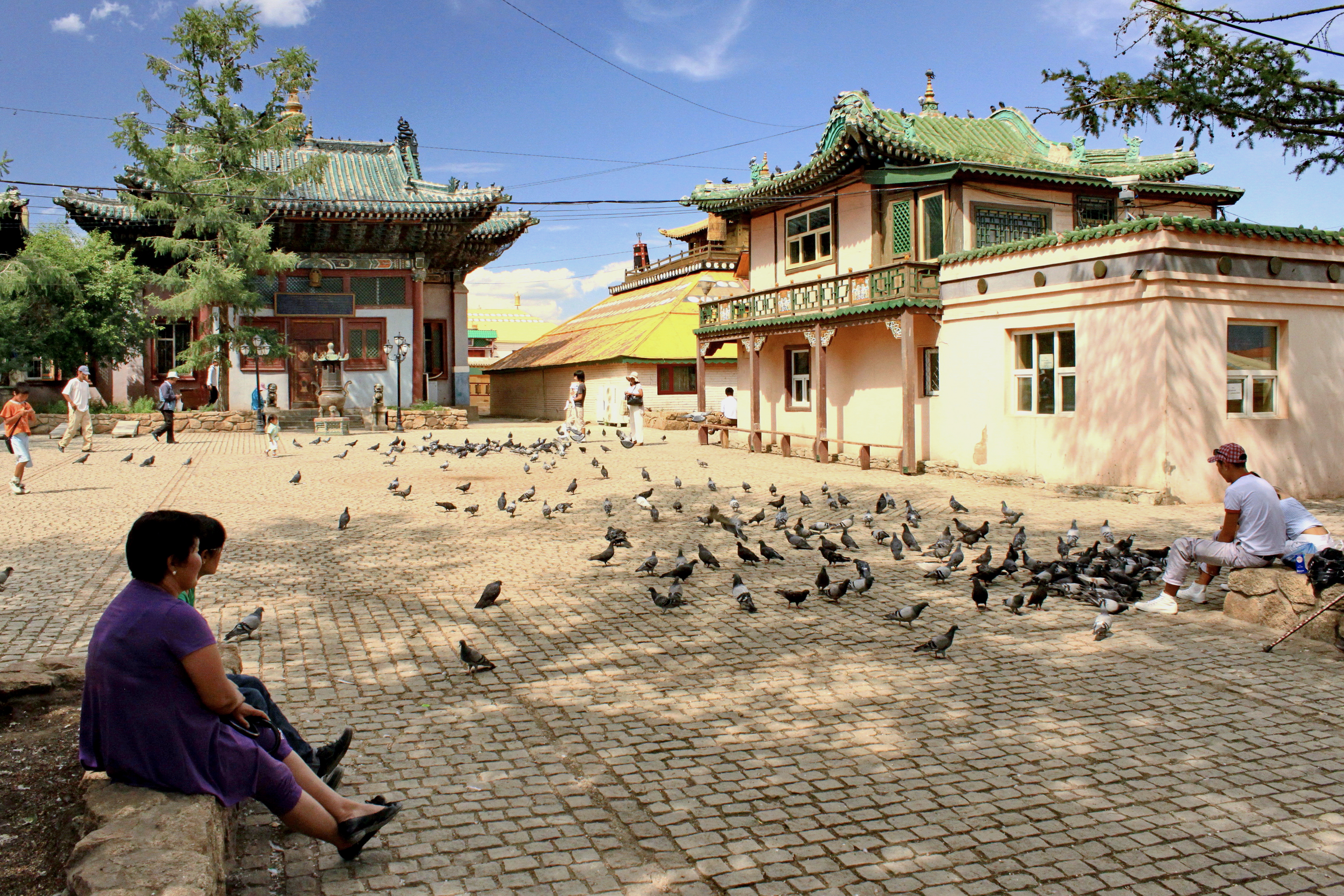 Square with pigeons. Gandantegchinlen Monastery, Ulan Bator, Mongolia.